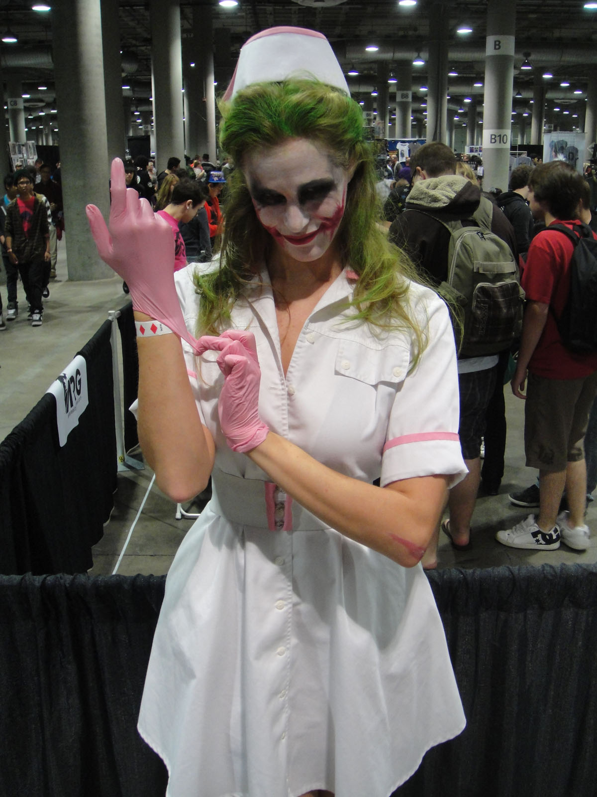 photo 2011 Pop Culture Geek taken by Doug Kline If you're interested in higher resolution versions of my images, contact me via my profile page.